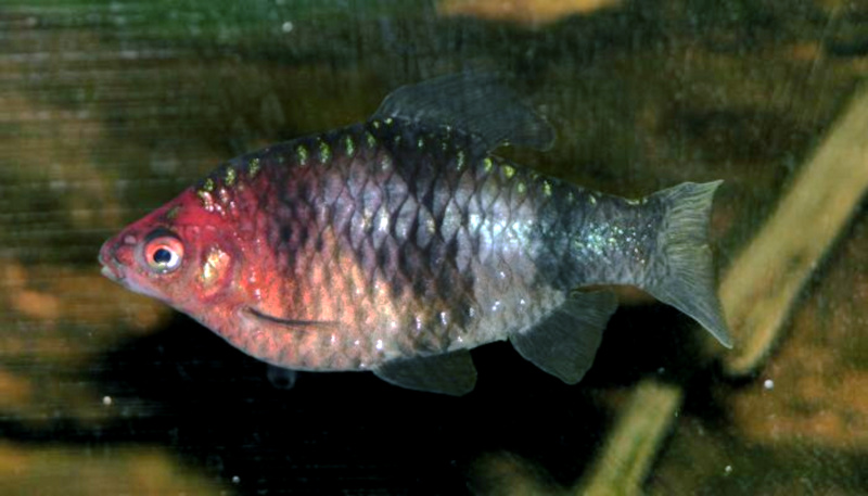 A photograph of a Black ruby barb, Pethia nigrofasciatus